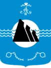 The coats of Aleksandrovsk-Sahalinskiy